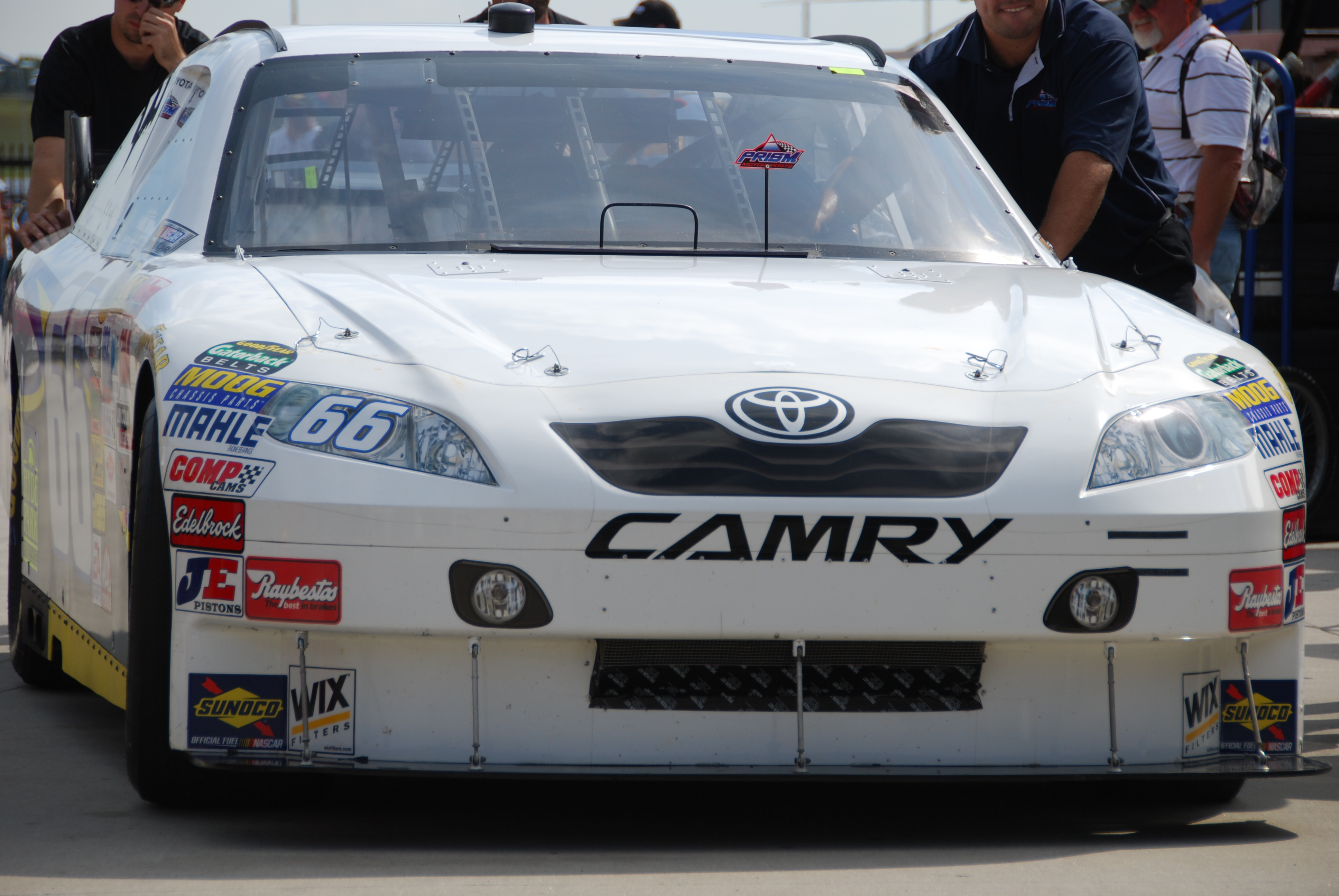 The No. 66 Prism Motorsports Toyota of Dave Blaney is pushed to the grid for the 2009 Pep Boys 500 at Atlanta Motor Speedway.